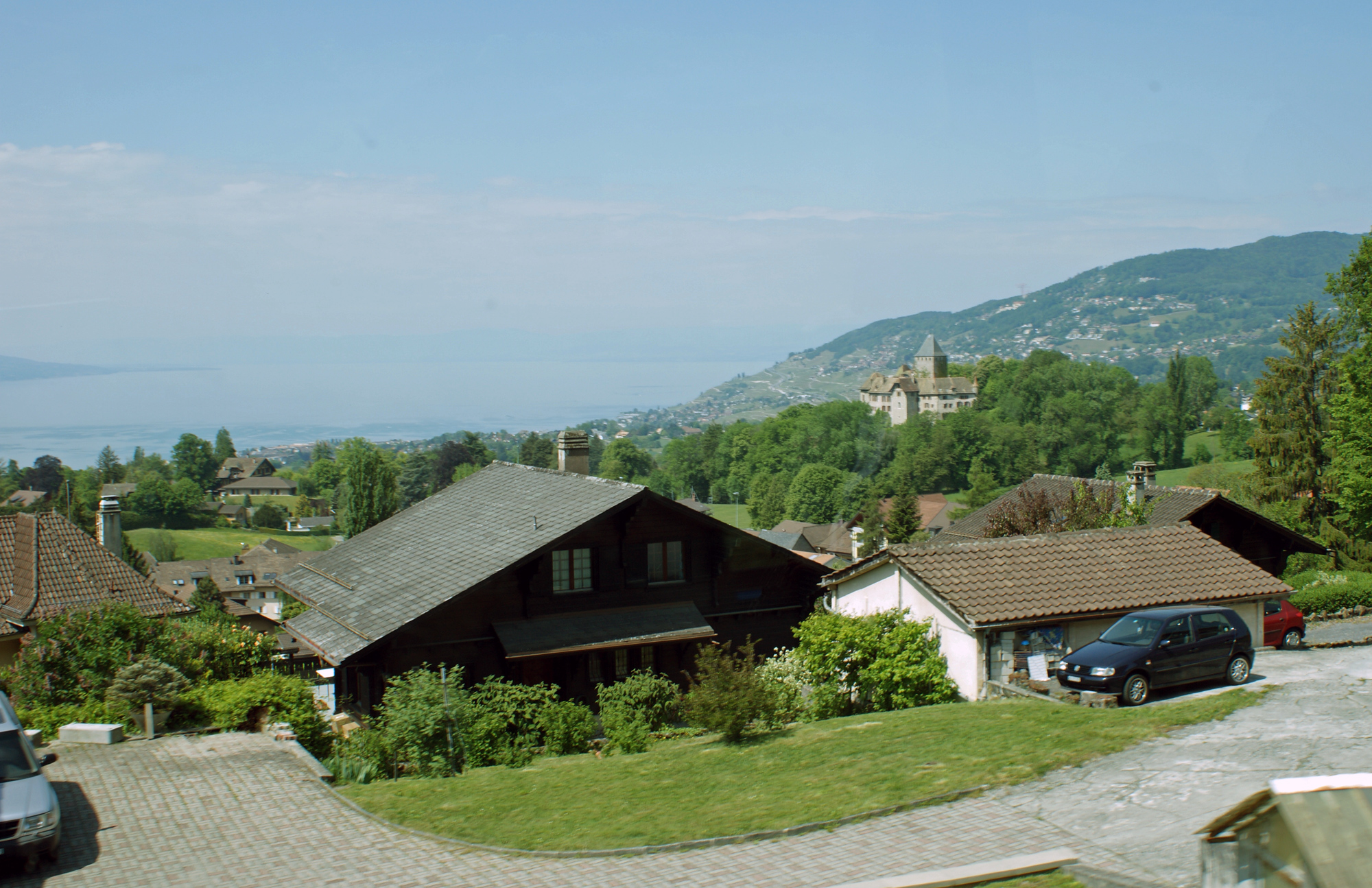 Village of Blonay with castle above Lake Geneva